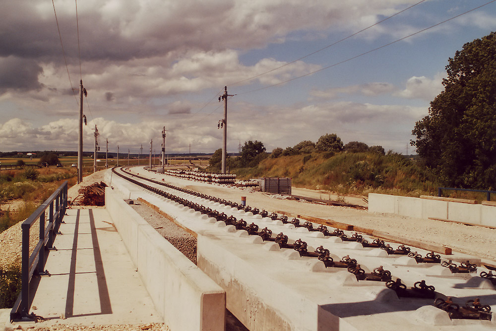 The Nuremberg-Ingolstadt high-speed railway line under construction, between the tunnels Audi and Geisberg